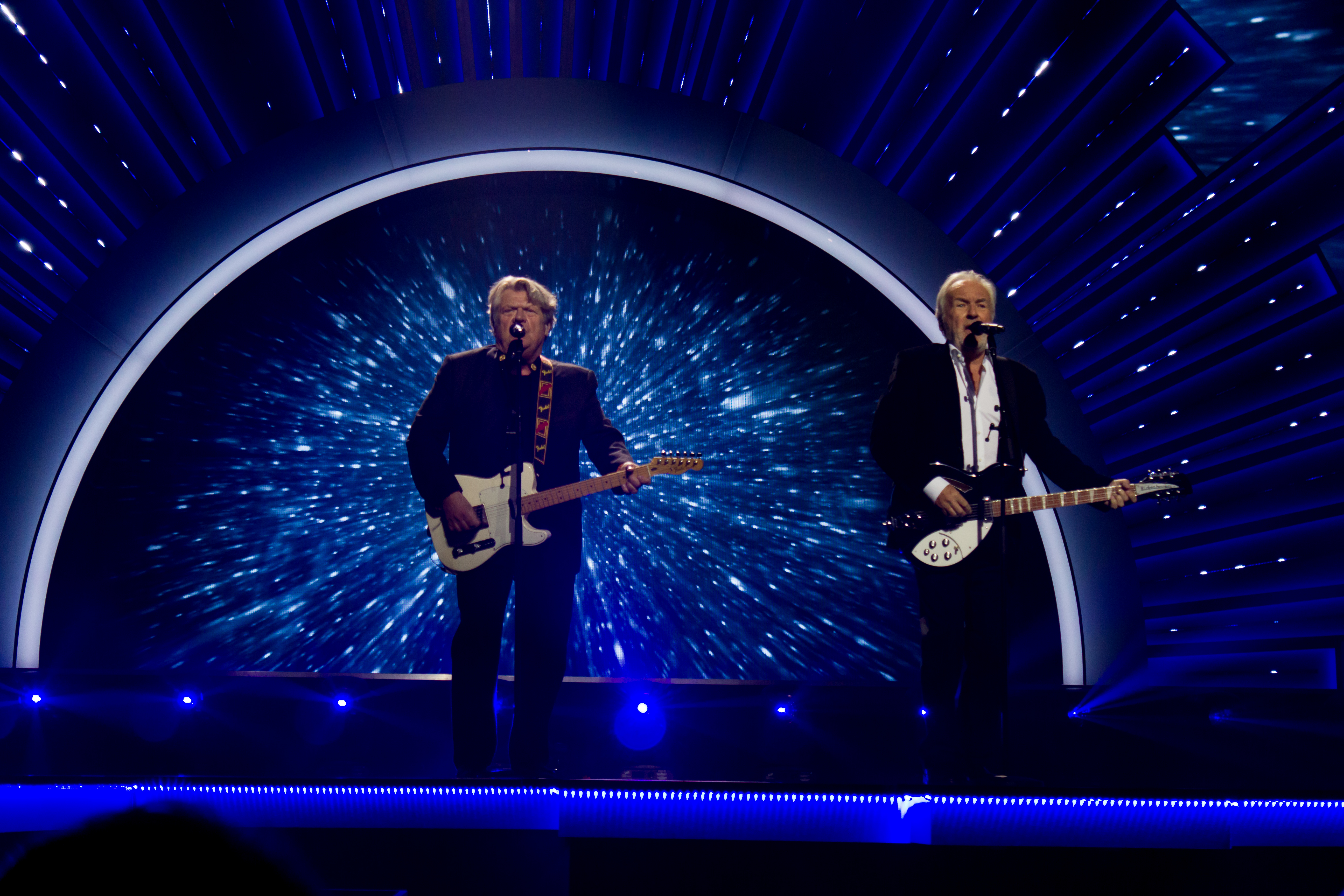 Dansk Melodi Grand Prix 2017 dress rehearsal